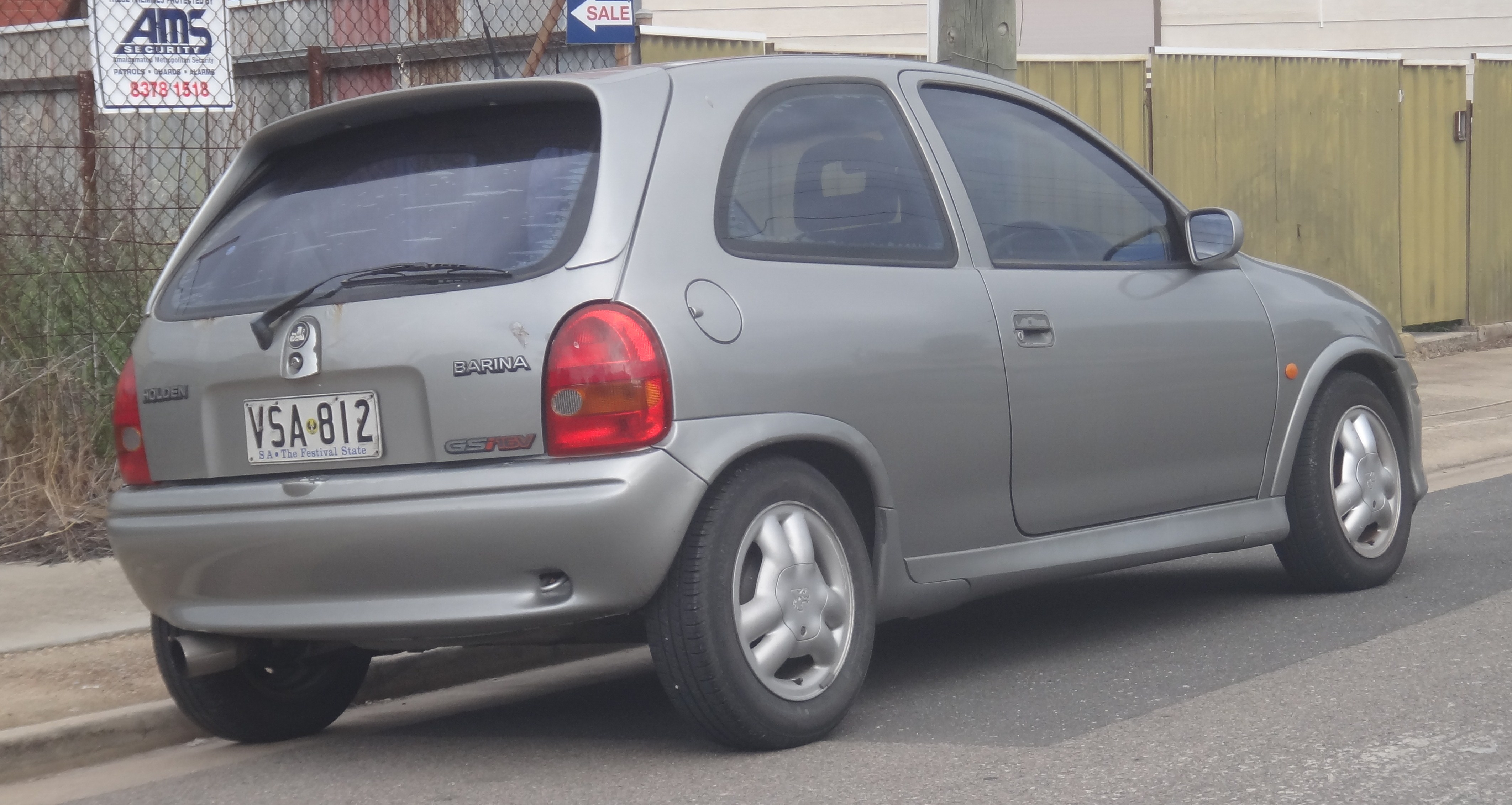 Surprisingly, Barina's of this shape and generation are still common on our roads, but the sporty GSi certainly is not, so I was happy to be able to find this one and get a shot of it.